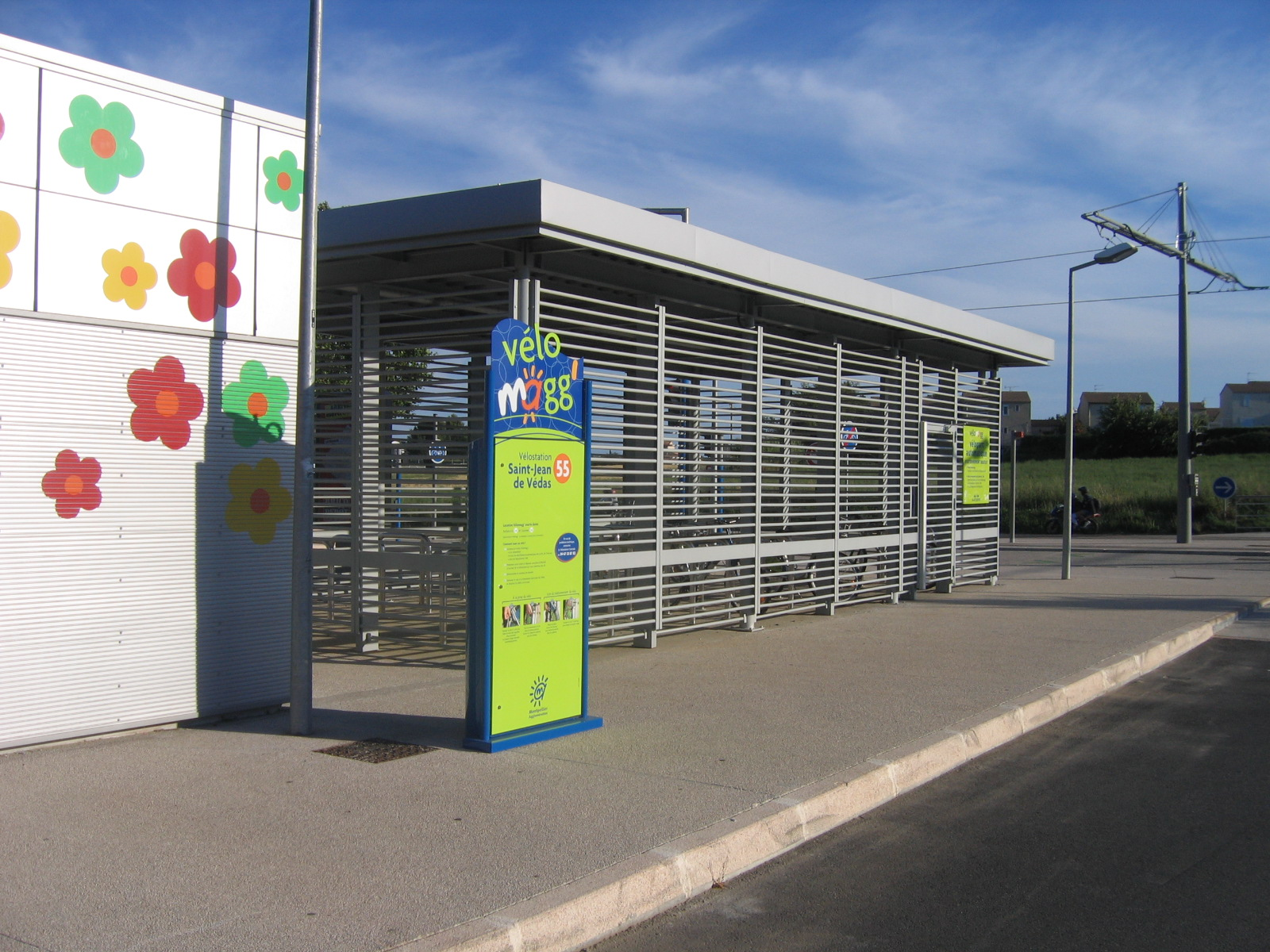 A Smoove park in the Vélomagg' bike sharing scheme. Le parking Smoove du système de vélopartage Vélomagg'.